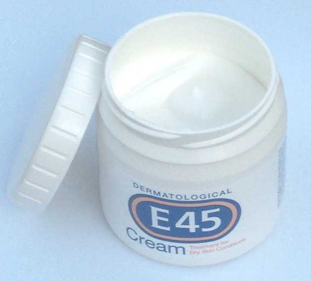 A small tub of E45(TM) cream.